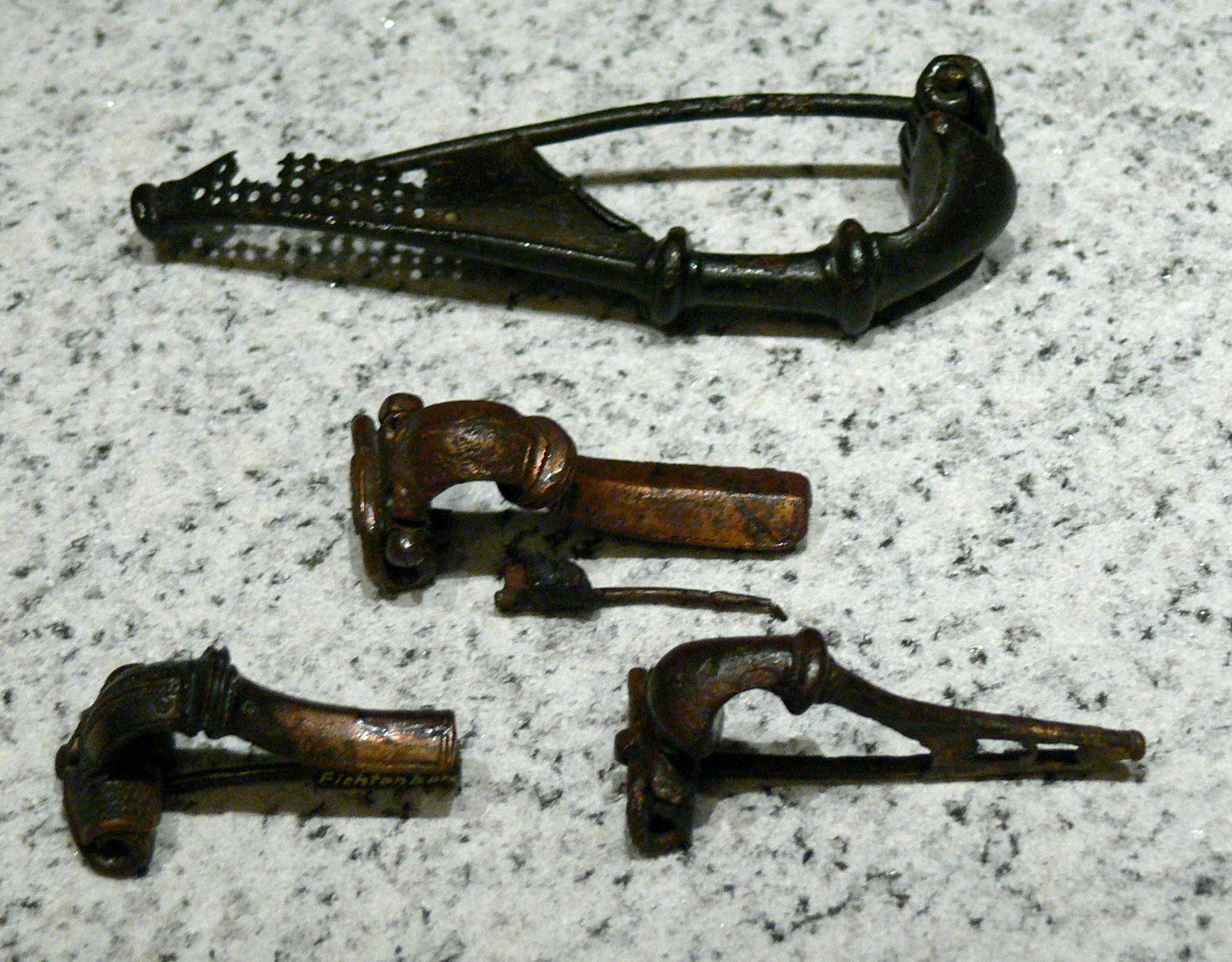 German Historical Museum ( Berlin ). Fibulae ( 1st century AD ) from Hermundur graves at Fichtenberg/Elbe .